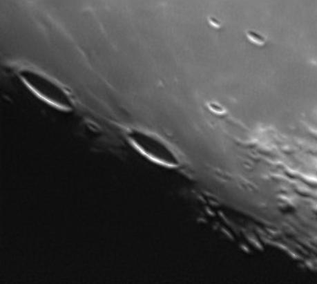 From [1]. Image by Bernd Gährken. On his homepage, he states that "sämtliche Seiten und Fotos sind zur weiteren Verwendung freigegeben", i.e. "all pages and images may freely be reused". Lupo 22:47, 23 Sep 2004 (UTC) Image of the Moon craters Krafft (left) and Cardanus (right), taken on February 3, en:2004 at 20:00 CEST.